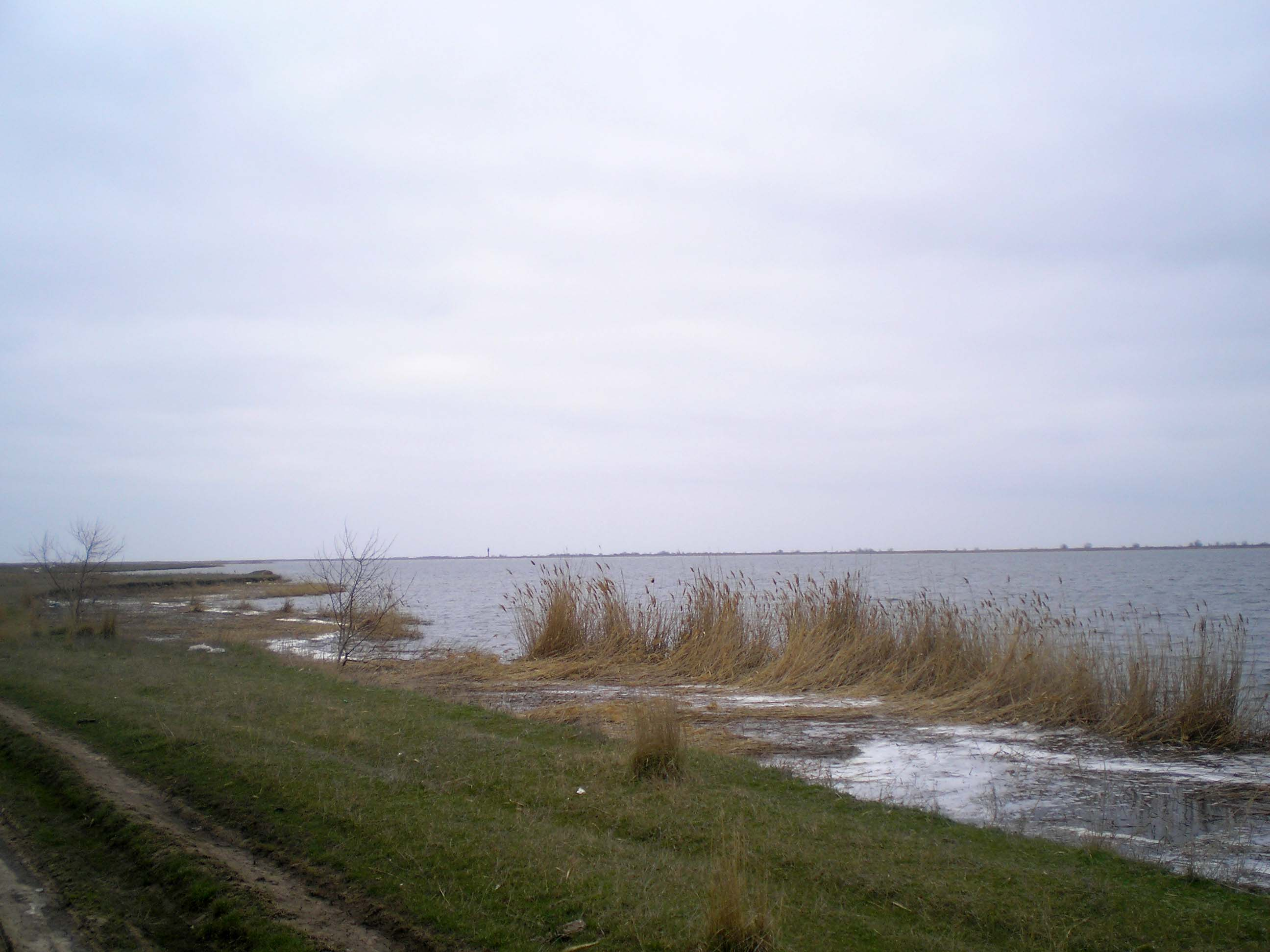 The Malyi Sasyk Lagoon, Odessa Oblast, Ukraine